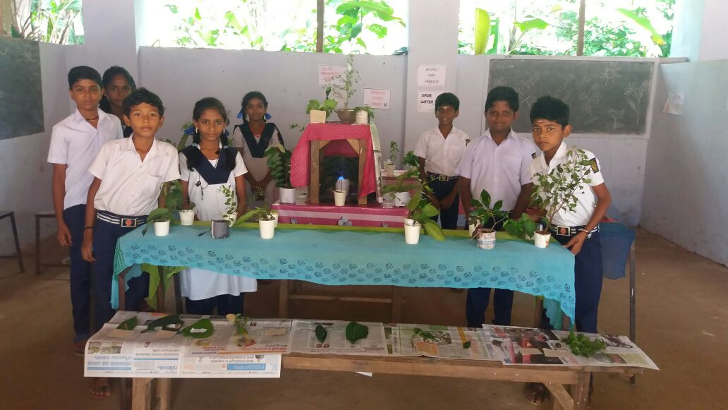 AKMHSS Poochatty Vidyarangam photo